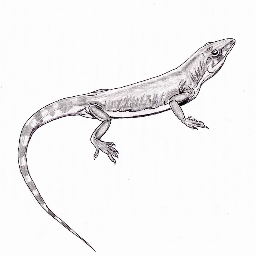 Archaeovenator - reconstruction autor - Bogdanov